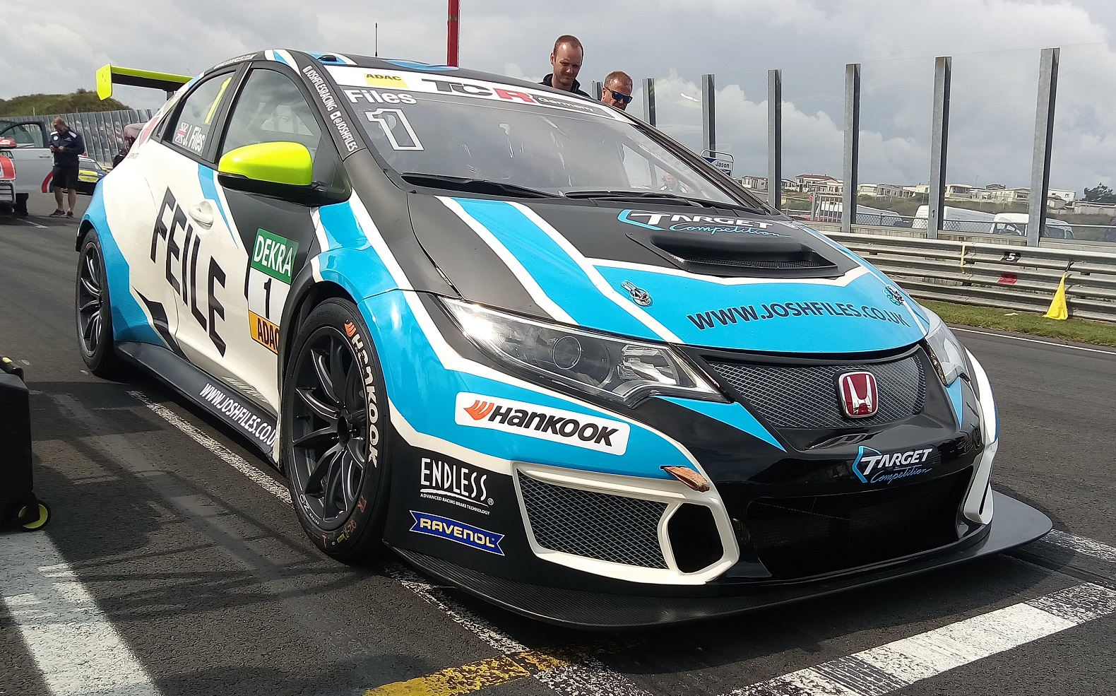 Josh Files at the 2017 ADAC TCR Germany Championship round at Zandvoort.